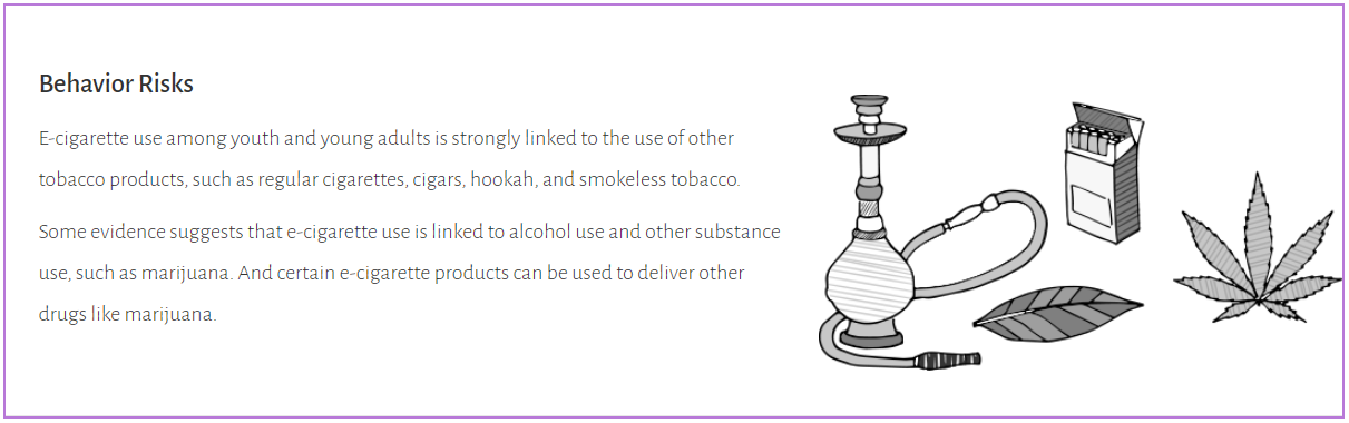 Behavior RisksE-cigarette use among youth and young adults is strongly linked to the use of other tobacco products, such as regular cigarettes, cigars, hookah, and smokeless tobacco.Some evidence suggests that e-cigarette use is linked to alcohol use and other substance use, such as marijuana. And certain e-cigarette products can be used to deliver other drugs like marijuana.